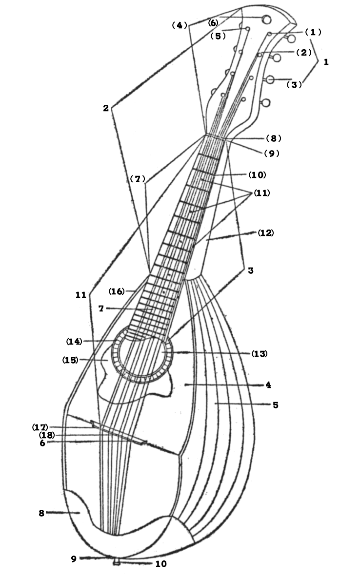 graphic of Mandolin.